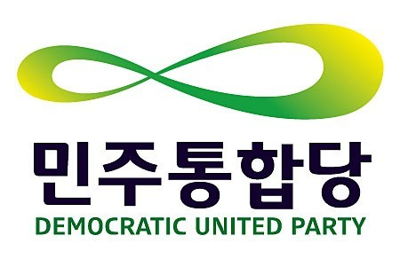 Democratic United Party South Korea's Former Logo